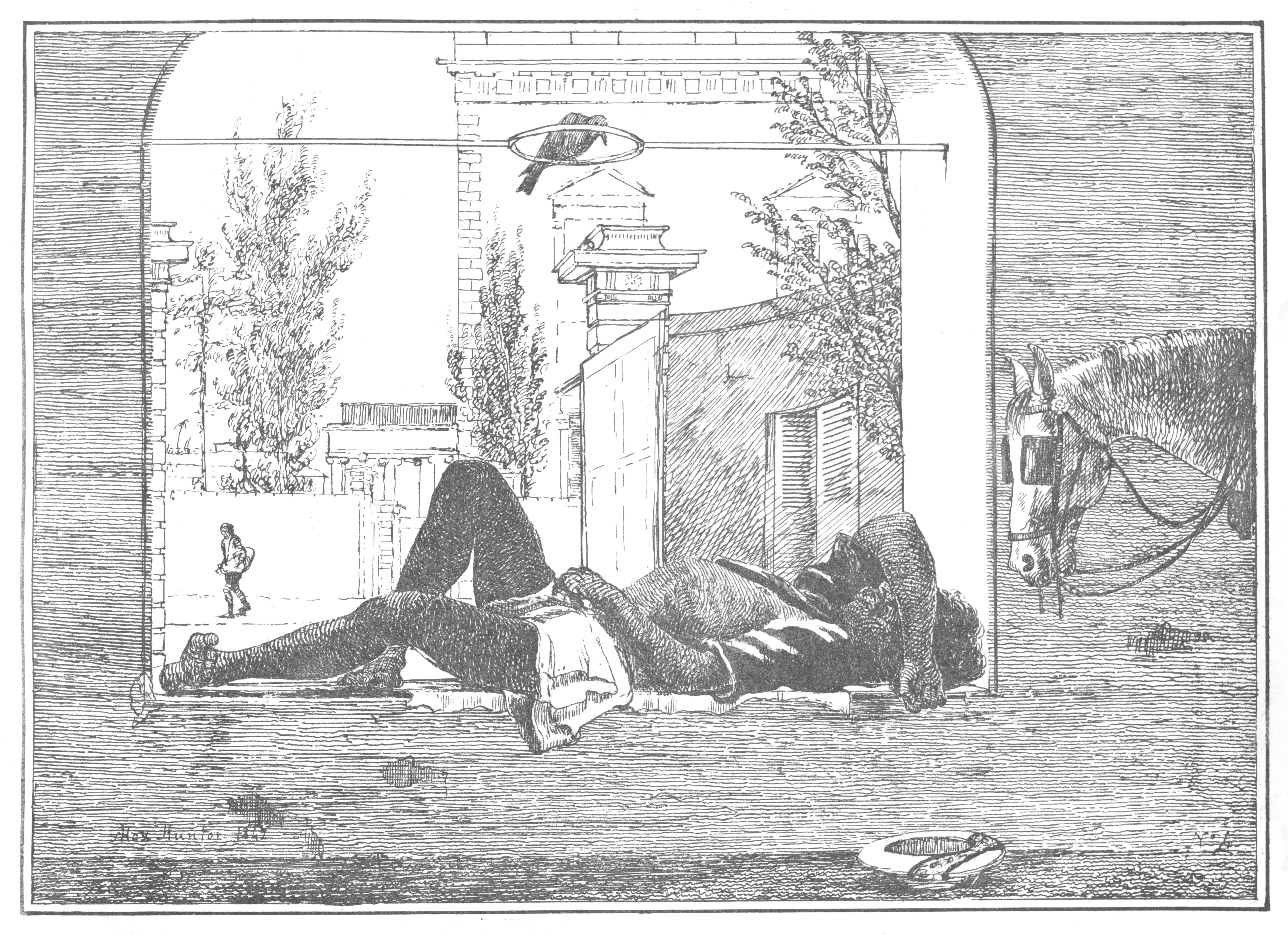 A lithograph of a sketch made by Alexander Hunter in 1842